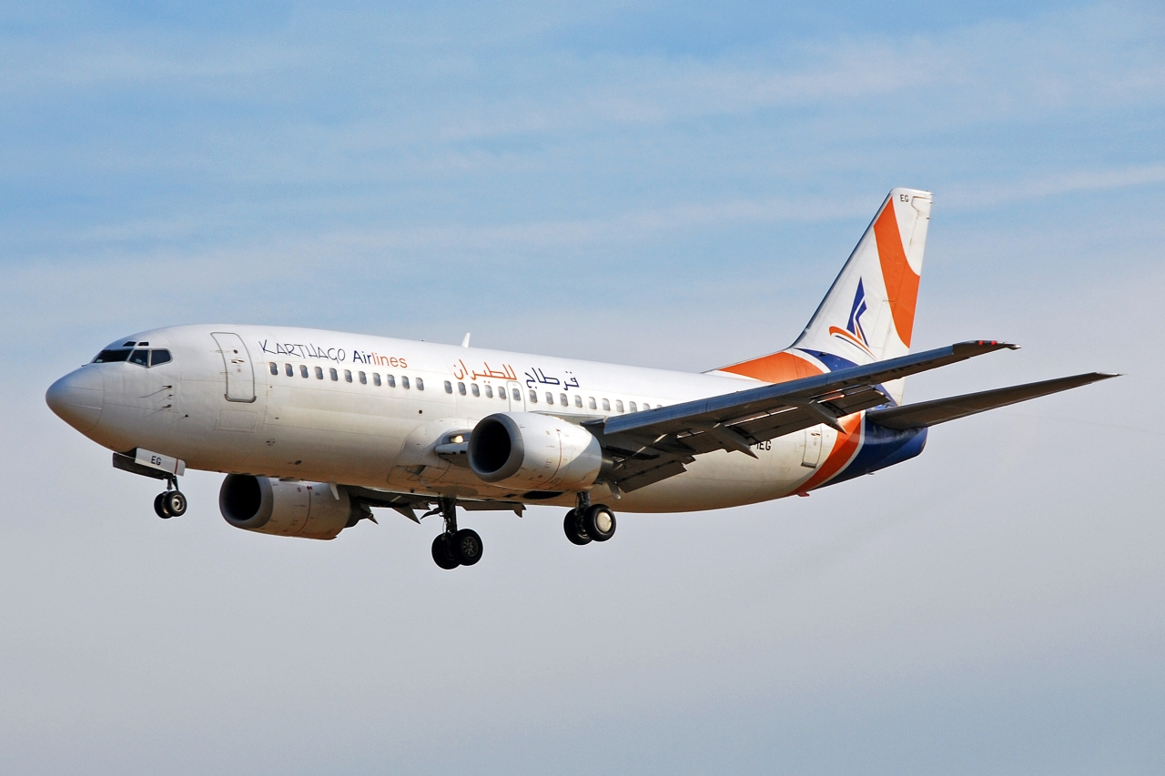 Boeing 737-31S Brussels - Zaventem [BRU / EBBR]